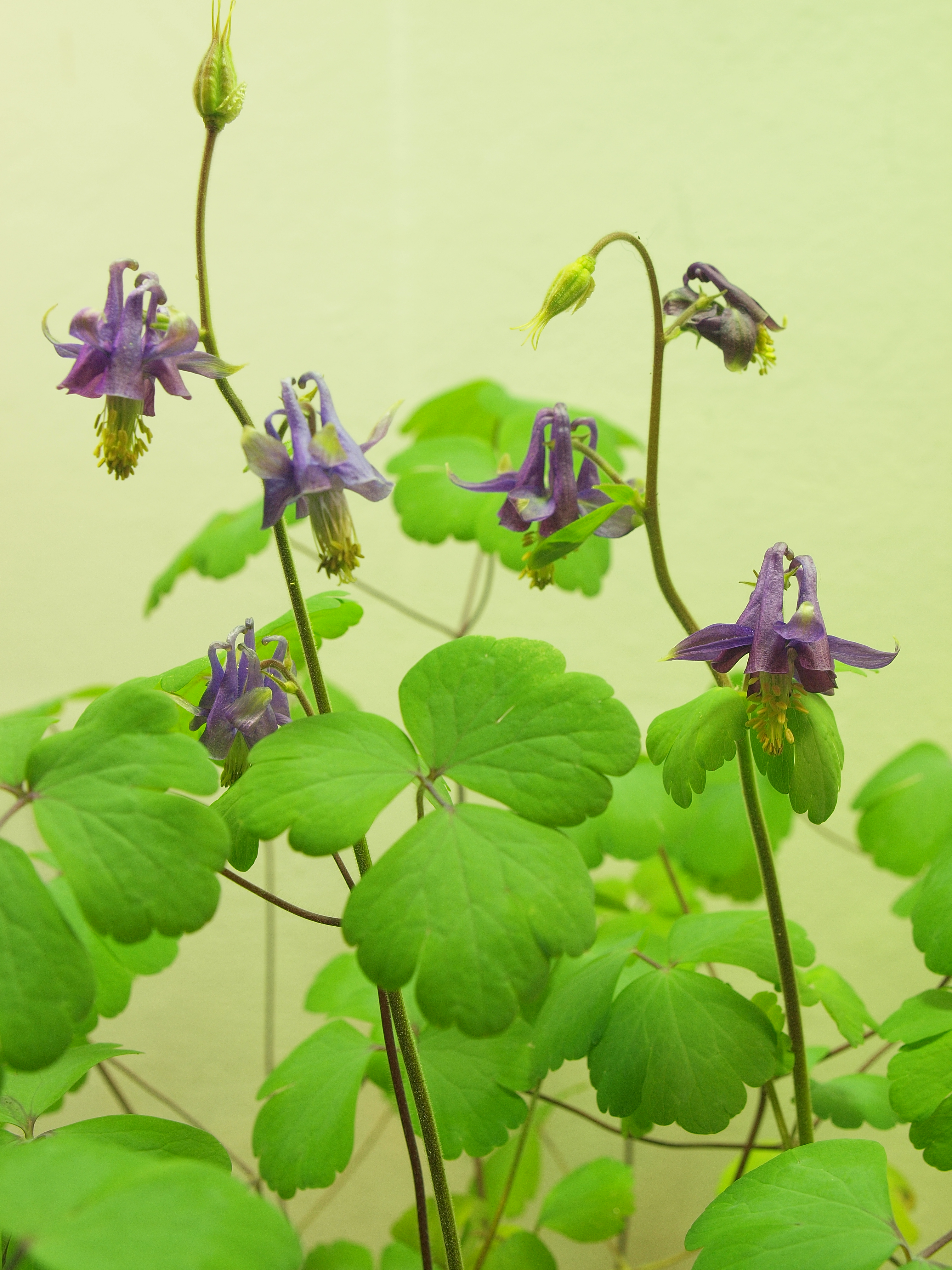 Cultivated Aquilegia grata from plant collections at Iljin do Bijela gora in Montenegro leg P.Cikovac